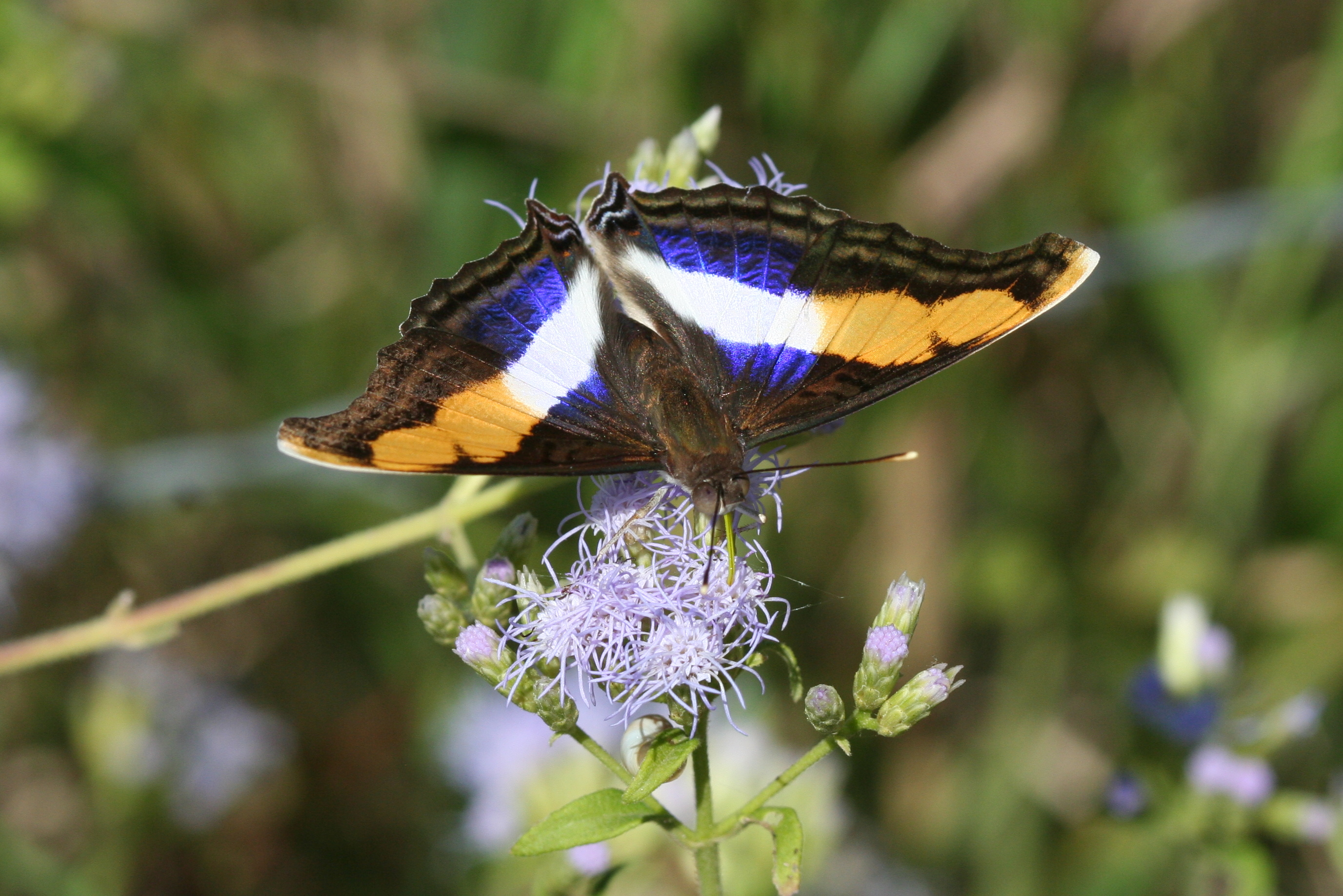 Doxocopa laure male Showing the blue flash which is only visible when the butterfly is facing the camera.